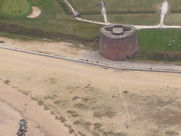 Martello tower, Clacton-on-sea, Essex. Photo by User:sannse, 26 June 2004.